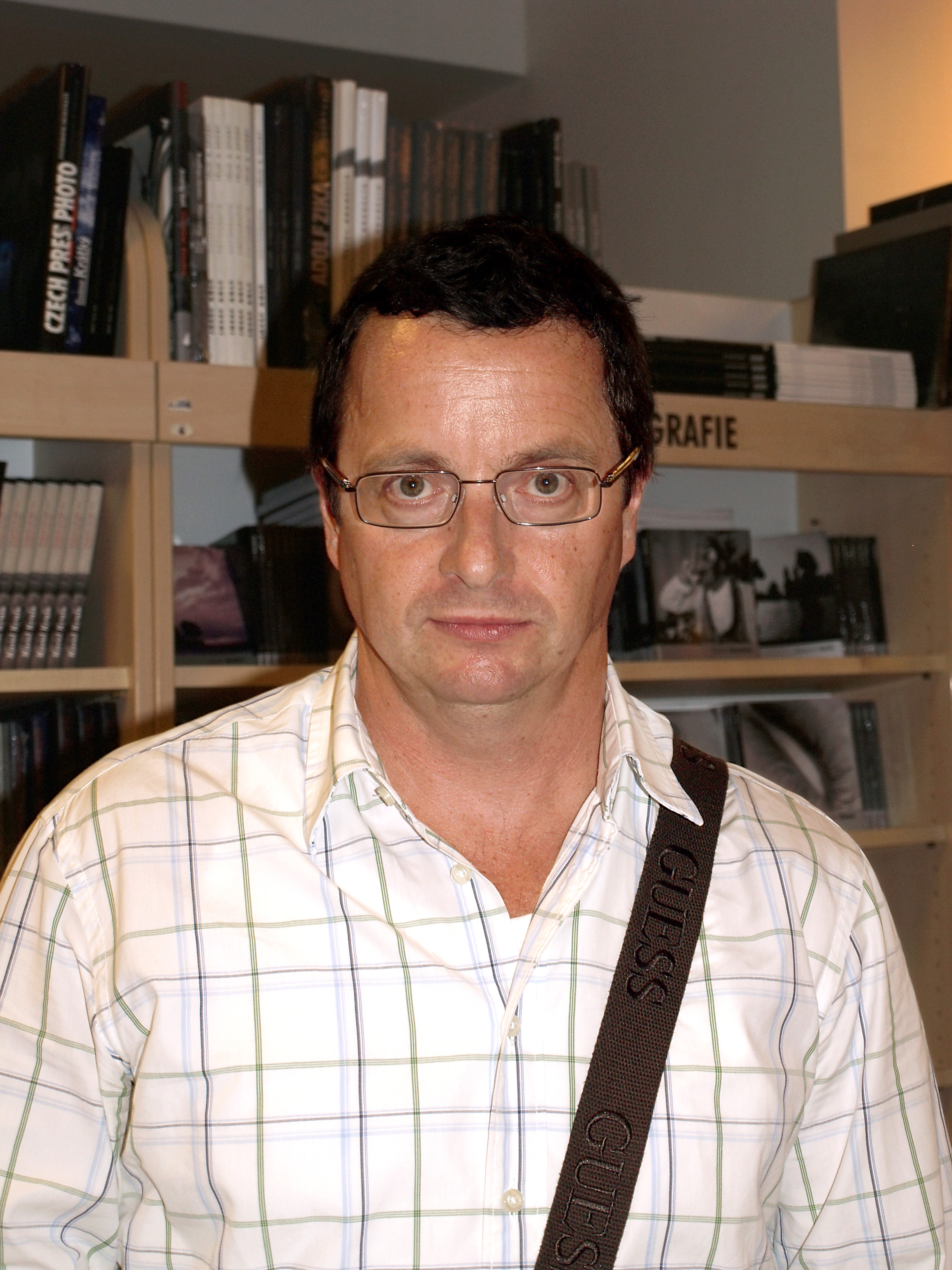 Czech novelist Michal Viewegh